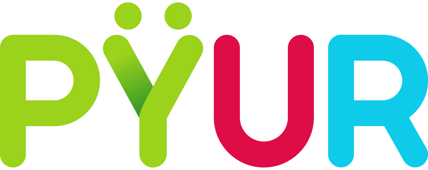 This is the new logo of the new cable provider PŸUR, formely known as Tele Columbus, Pepcom, primacom and HL komm, from on October 1st 2017